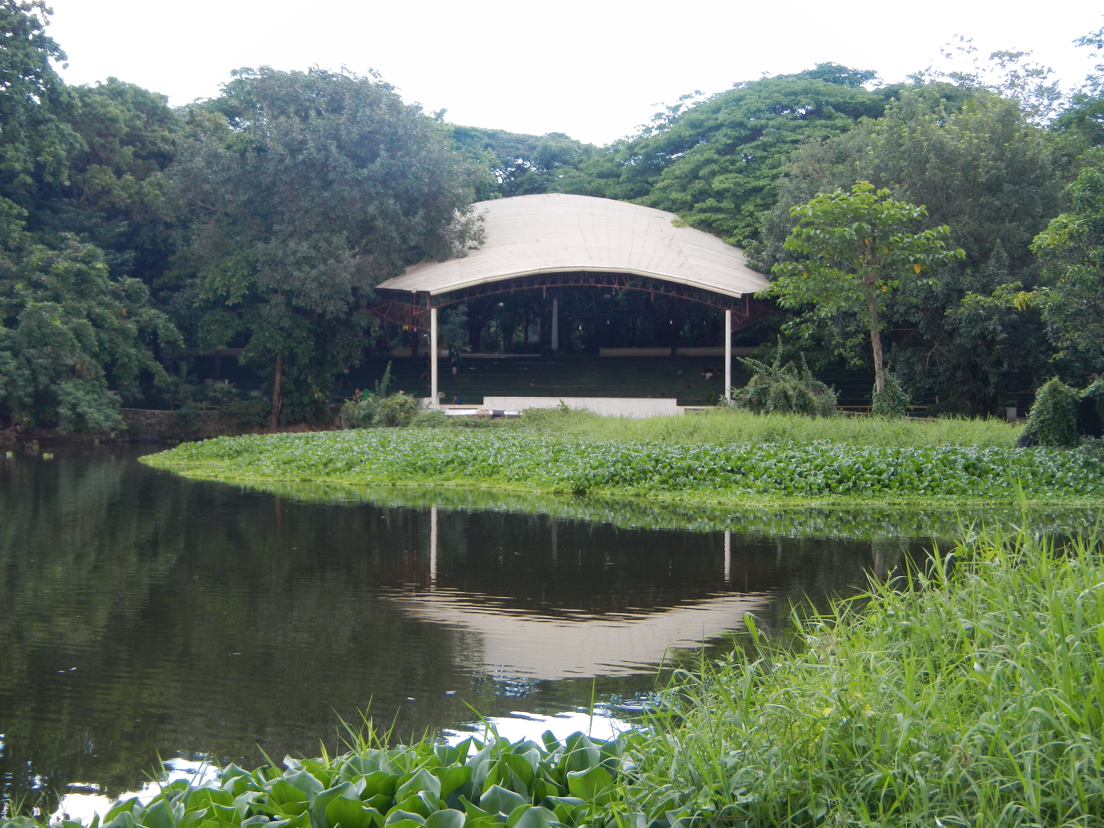 Ninoy Aquino Parks & Wildlife Center[1] (NAPWC) is a 64.58-hectare (159.6-acre) zoological and botanical garden located in Diliman,[2] Quezon City,[3] the Philippines. It was named after Benigno S. "Ninoy" Aquino, Jr.[4] The Ninoy Aquino Parks & Wildlife Center has a lagoon, an aquarium, a playground, botanical garden and a Wildlife Rescue Center, which the Department of Environment and Natural Resources [5] uses as a temporary shelter where confiscated, retrieved, donated, sick, abandoned, and injured wild animals are placed to be taken care of. The park houses several indigenous plants and animals such as crab-eating macaques,[6]water monitors[7], Philippine deer, [8] binturongs,[9]Palawan bearded pigs[10] and several varieties of birds.[11] [12]